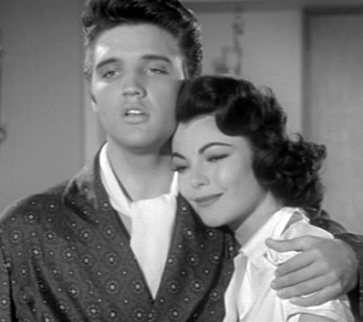 Screenshot of Elvis Presley and Judy Tyler from the trailer for the film Jailhouse Rock